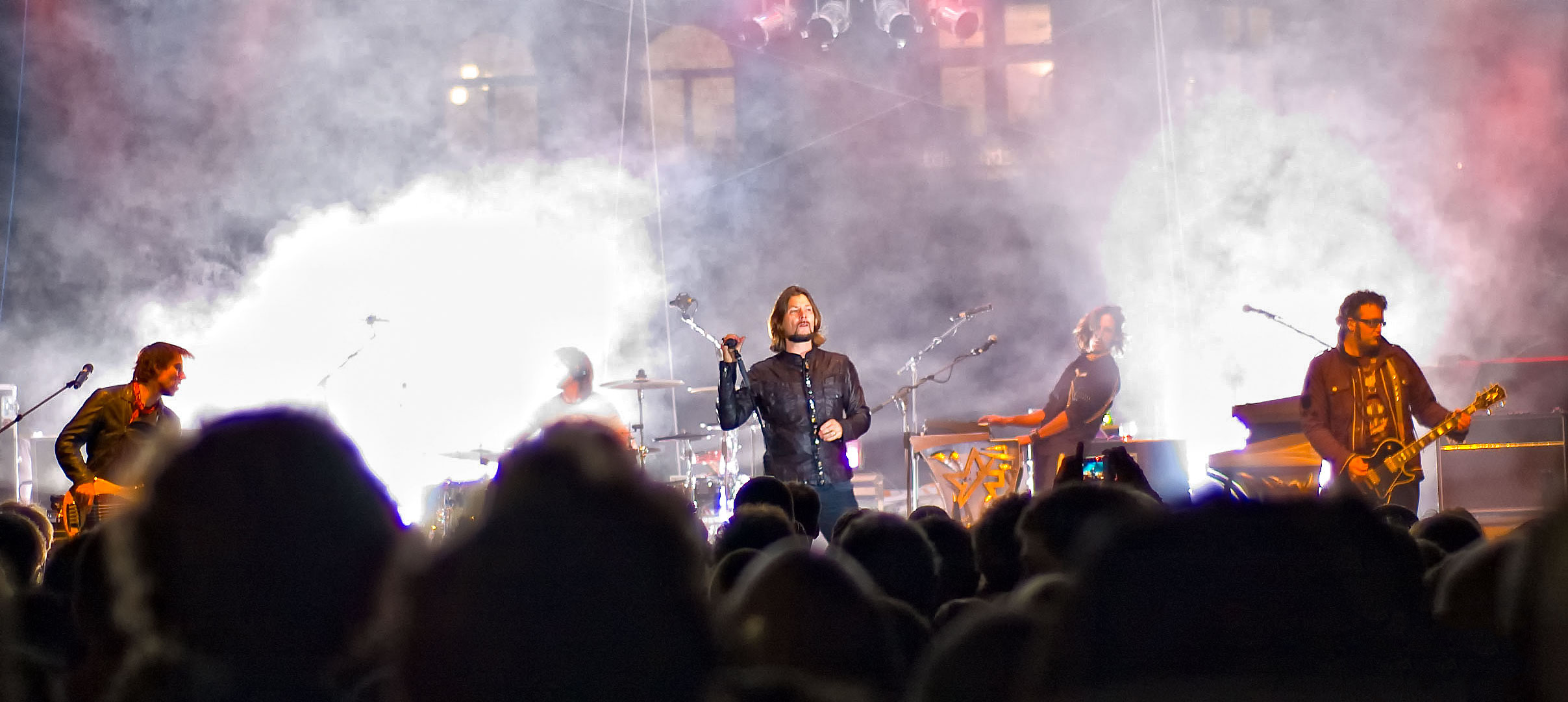 Reamonn live on stage at Wiesbaden city festival on 2009-09-25